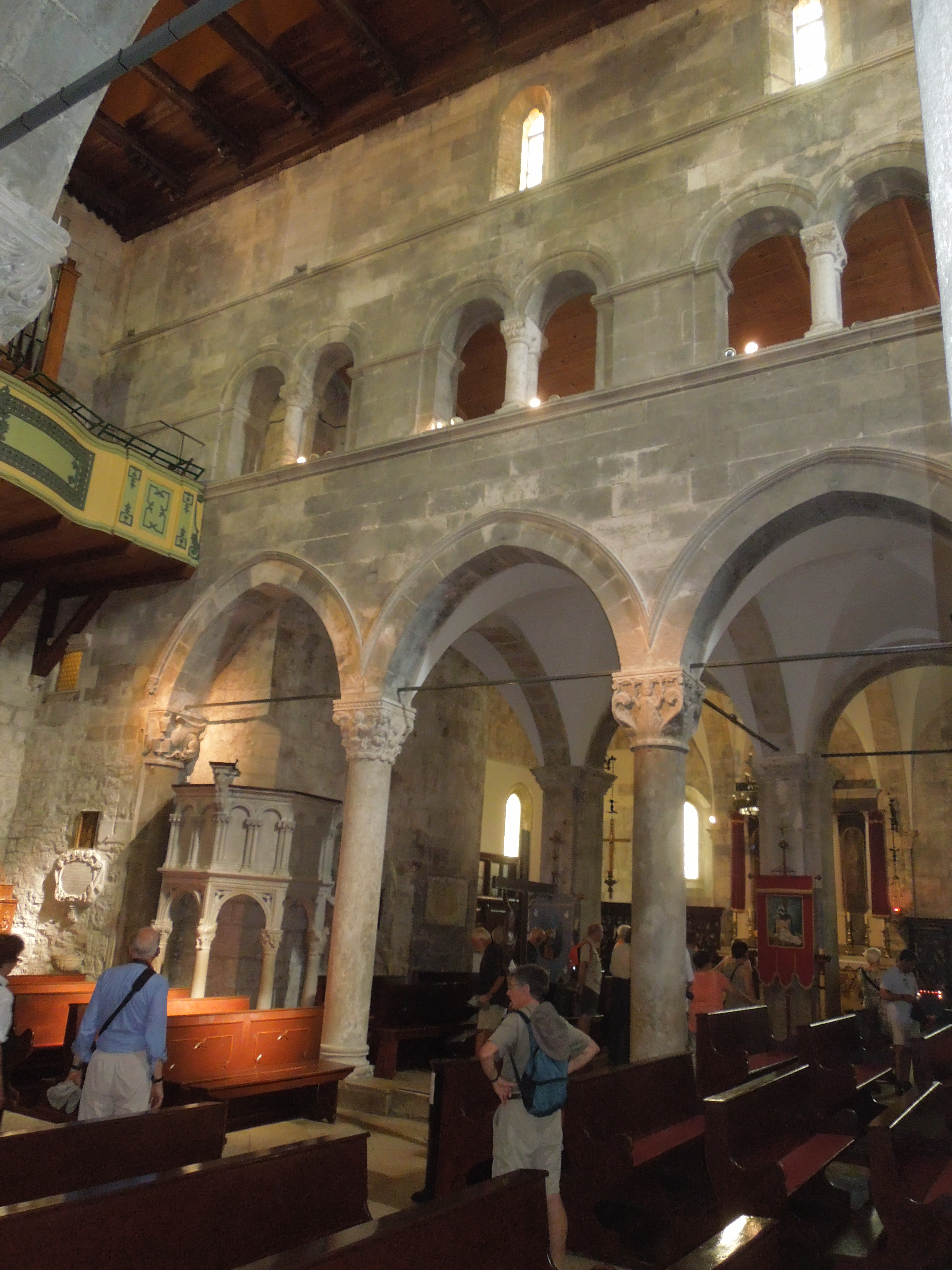 Korcula: interior of St. Mark's Cathedral